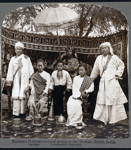 Stereoscopic pair of photographs taken by Underwood & Underwood of Burmese princes at the Coronation Durbar held in January 1903 at Delhi in India. The photographs show two Shan rulers (sawbwas) standing with their wives seated between them, the group posed against an ornamental backdrop and shaded by a tiered royal umbrella, at the grand durbar held in honour of the coronation of Edward VII. The prints are from a collection of 36 stereoscopic views of Burma, one in a series of "stereoscopic tours" of foreign countries published as the ‘Underwood Travel Library’. Stereoscopic views became enormously popular from the mid-19th century onward as they enabled observers to imagine that they were really “touring” around distant parts of the world. Each pair of views, made using a special camera with two lenses, is mounted on stout card for insertion in a stereoscope or binocular viewer. This device creates the illusion of a single three-dimensional image in the mind of the observer by using the binocular function of human sight to combine the two images, which are seen from fractionally different viewpoints. The photographs in this set are generally of high quality and selected for their clarity and instructive value. A few of the mounts also have a detailed descriptive caption printed on the reverse, with instructions (presumably for the guidance of teachers) as to what general topic the photograph illustrates.